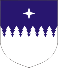 Coat of arms of Rägavere vald, Estonia